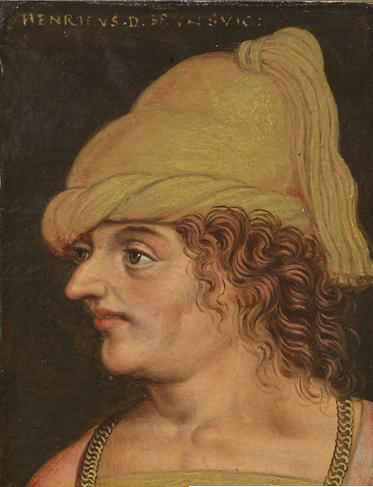 Henry XVI of Bavaria